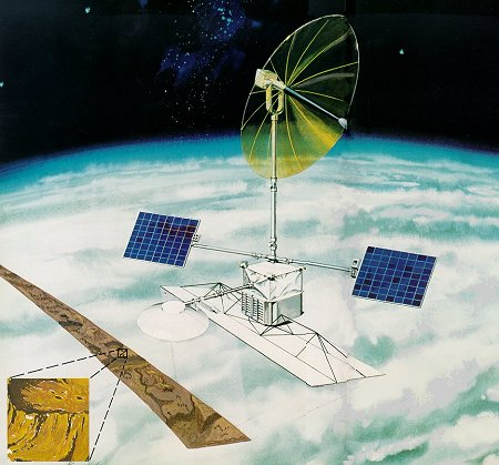 Art picture of the not built Venus Orbiting Imaging Radar (VOIR) spaceprobe.